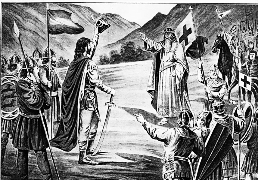 Meeting between Stefan Nemanja e Frederick Barbarossa in 1189. lithograph. .